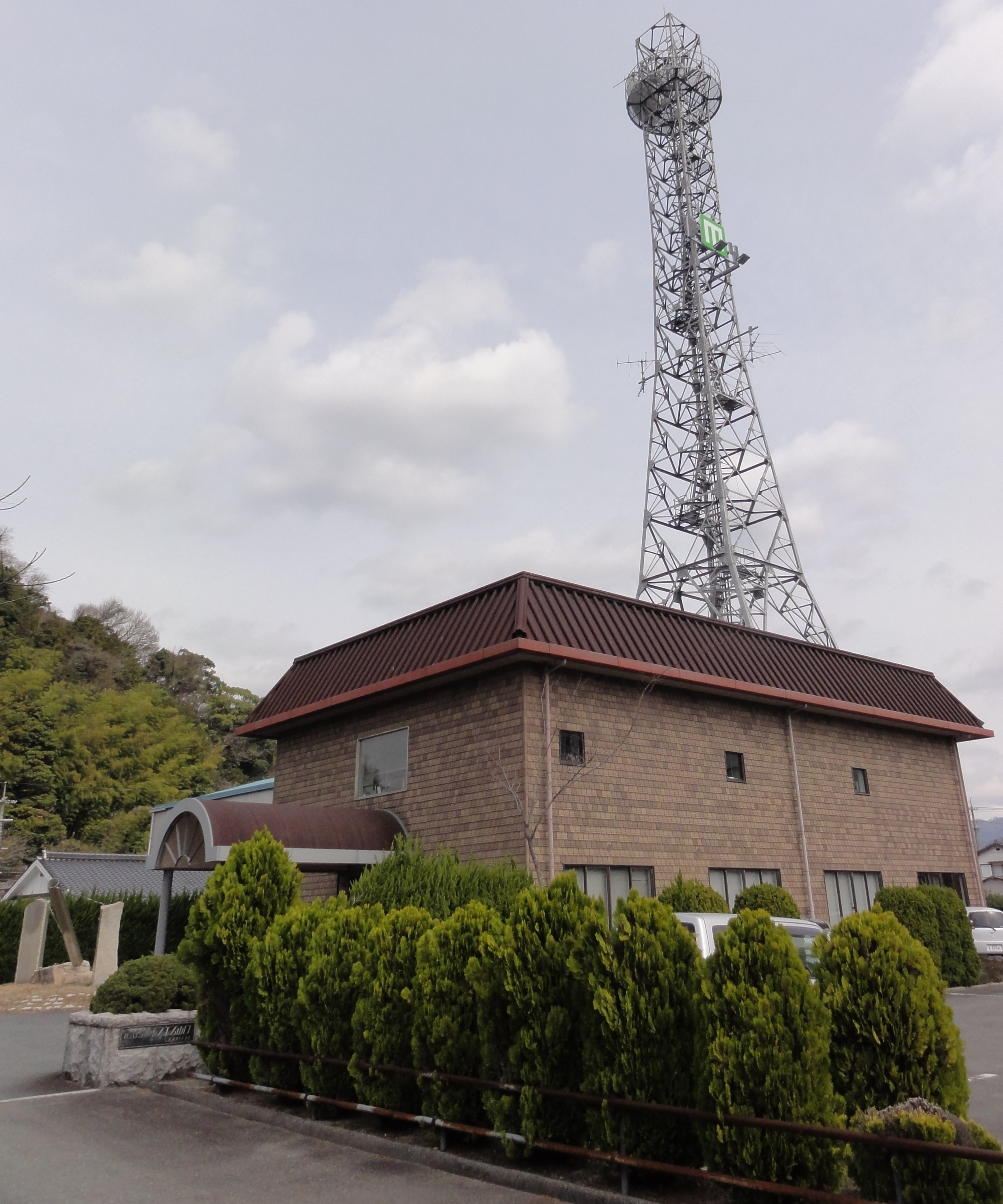 FM Yamaguchi,Yamaguchi Pref., Japan